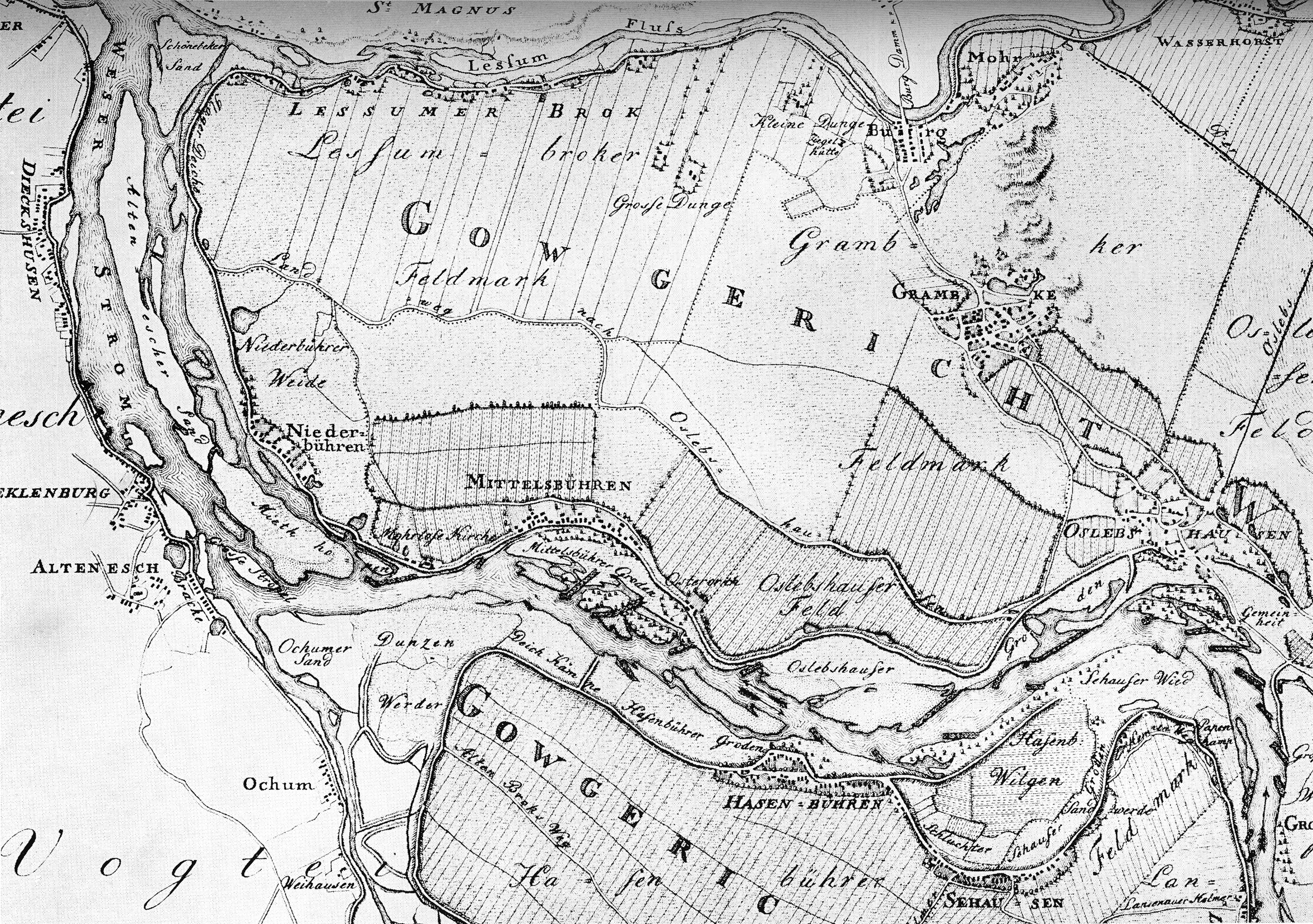 Clipping from a map from the year 1806 by Christian Abraham Heineken, showing the territory next to Mittelsbüren at the Weser river.